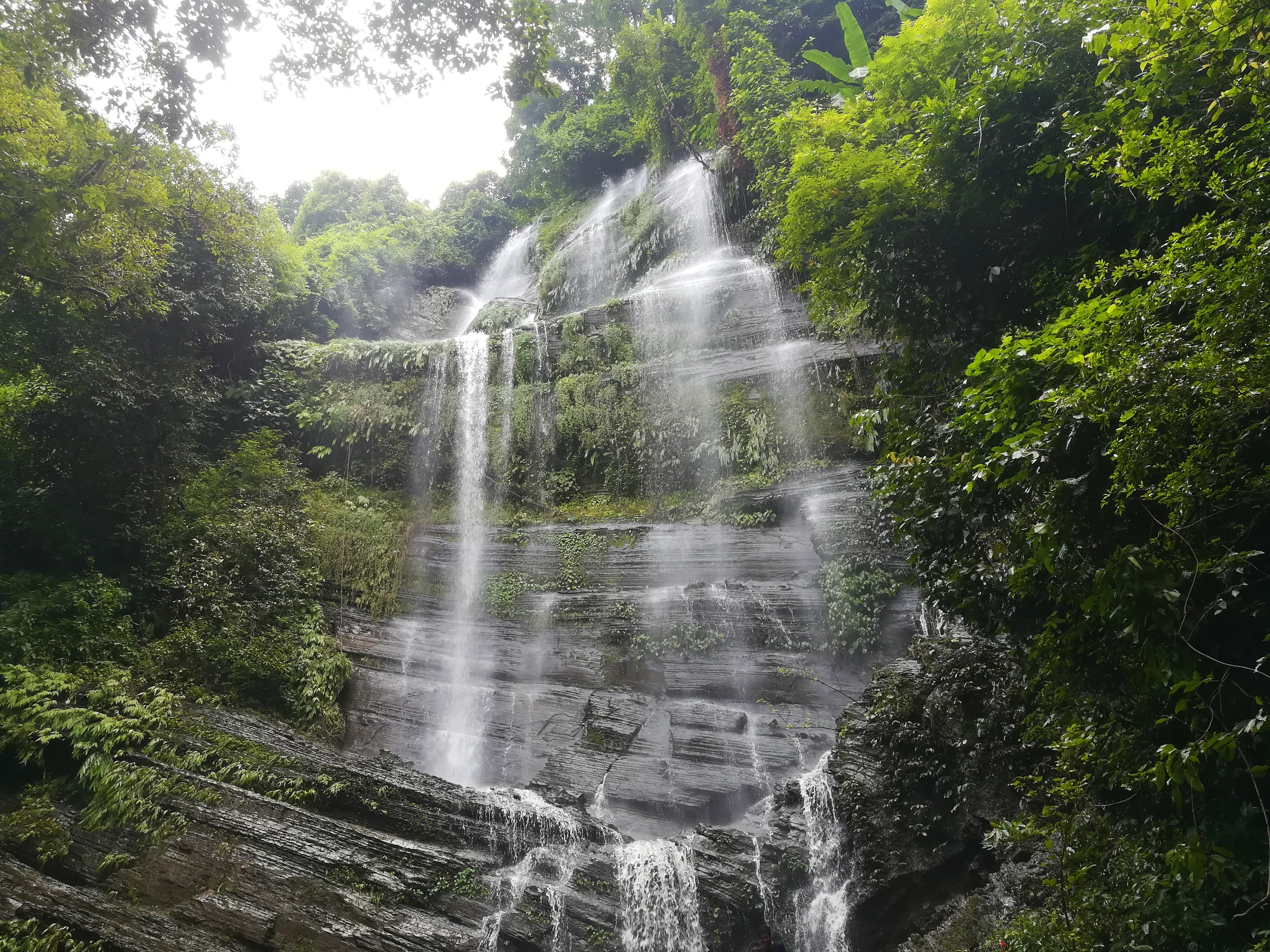 Muppochara waterfall